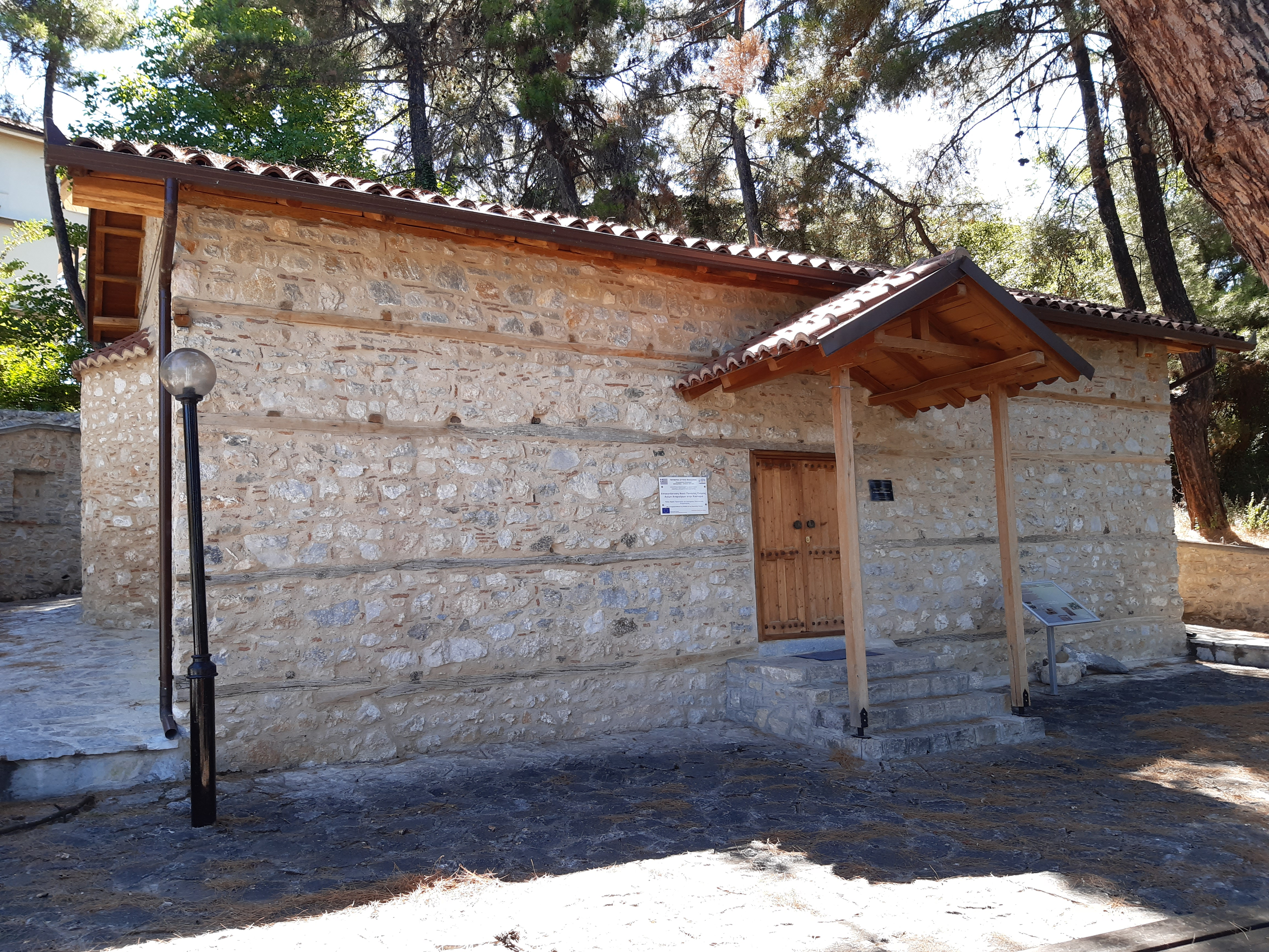 Saint Mary of Unmercenaries Church, Kastoria